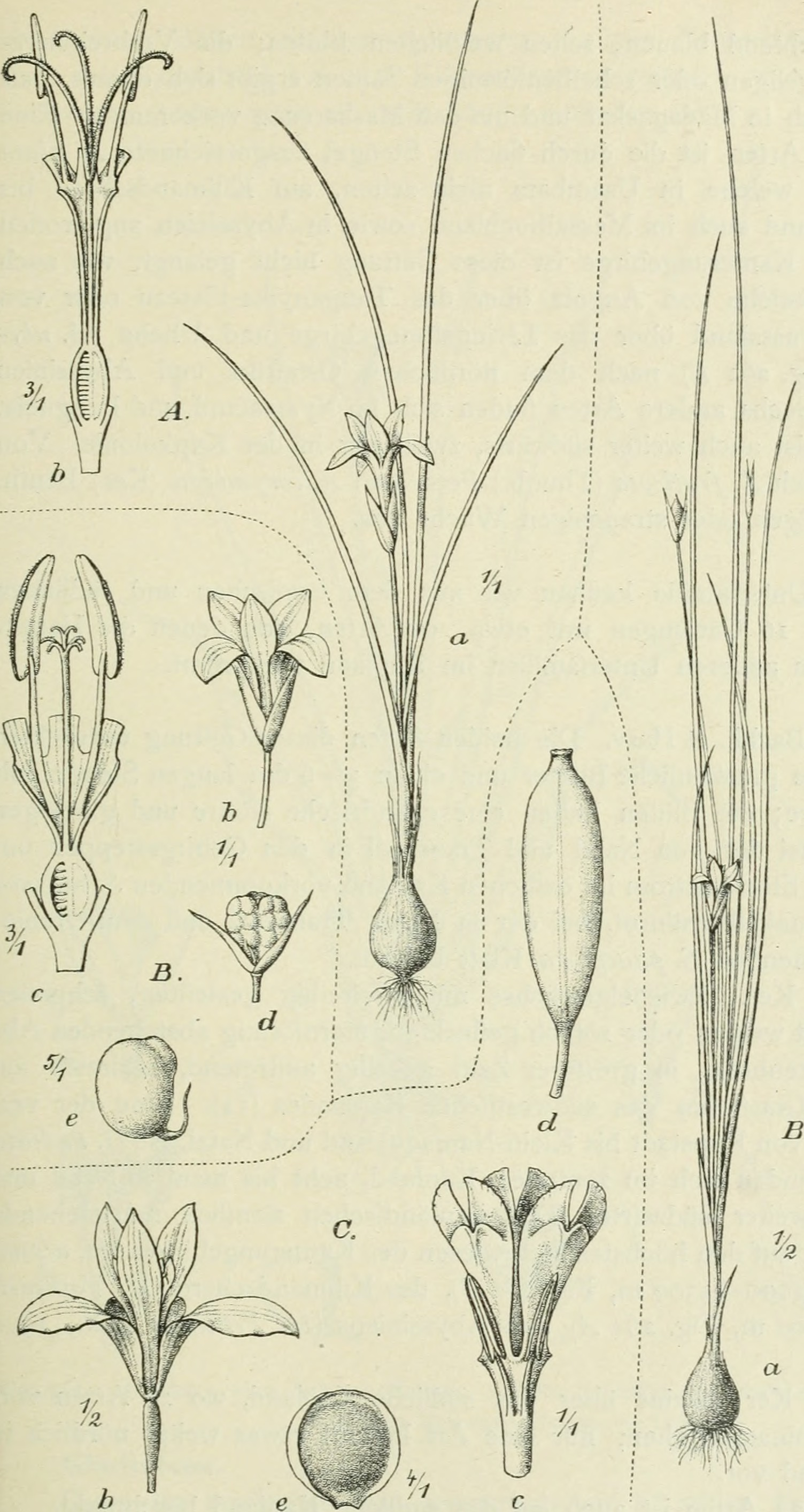 Title: Die Pflanzenwelt Afrikas, insbesondere seiner tropischen Gebiete : Grundzge der Pflanzenverbreitung im Afrika und die Charakterpflanzen Afrikas Year: 1910 (1910s) Authors: Engler, Adolf, 1844-1930 Subjects: Botany Publisher: Leipzig : W. Engelman Text Appearing Before Image: ' Text Appearing After Image: Fig. 260. A Romulea Linaresü Pari, subsp. abyssinica Beg. a Habitus, b Andröceum und Gynäceum im Längsschnitt. B Rom. campanuloides Harms, a Habitus, b Blüte, c Andröceum und Gynäceum im Längsschnitt, d Frucht, c Same. C Moraea bella Harms, a ganze Pflanze, b Blüte, c Griffel mit den Staubblättern, d Frucht, e Same. — Original. Engler Charakterpflanzen Afrikas. I. 24